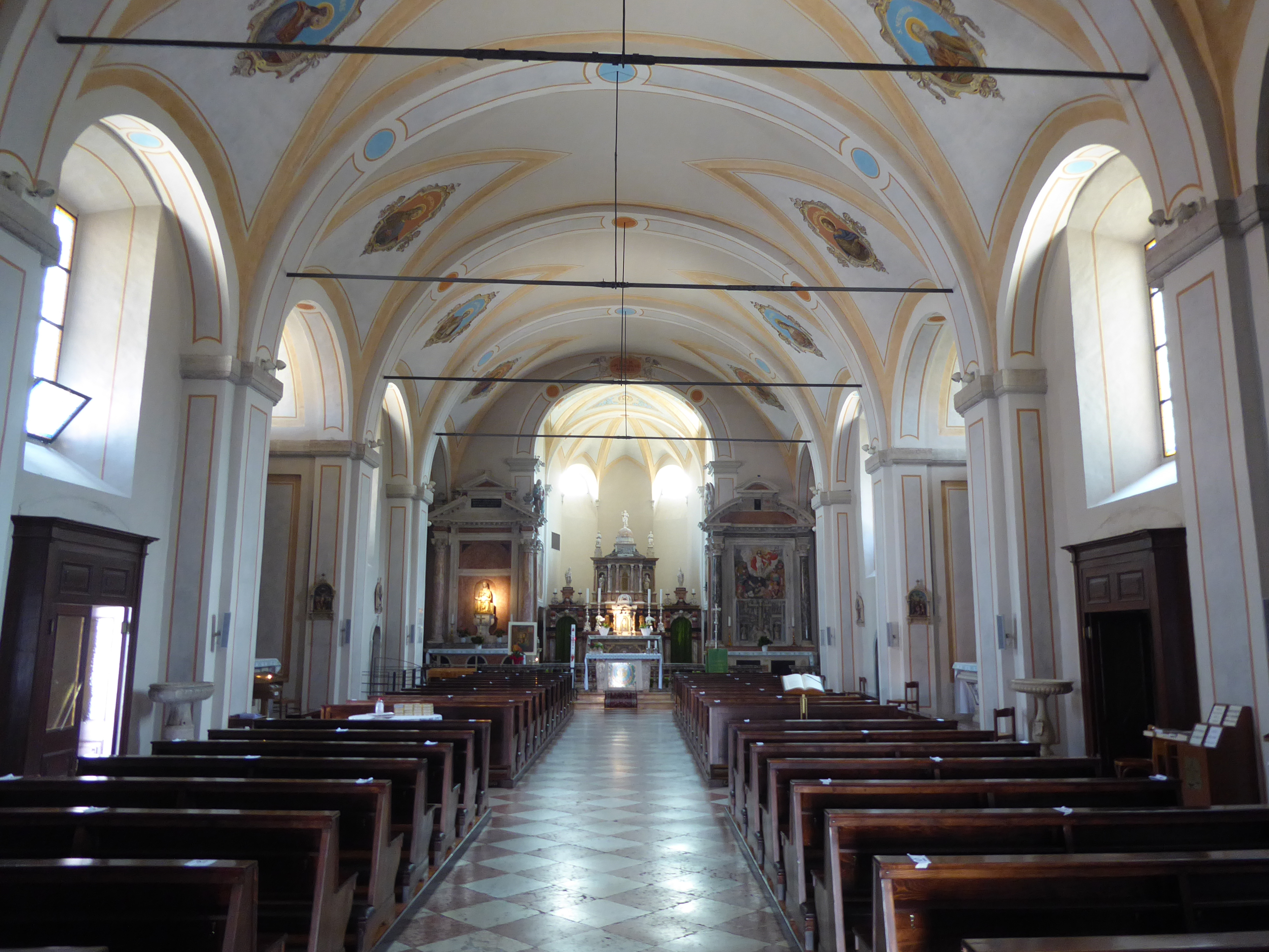 Brentonico (Trentino, Italy), Saints Peter and Paul church - Interior